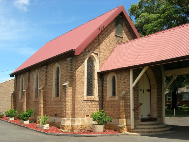 St Marks Church (Anglican), Ermington, New South Wales